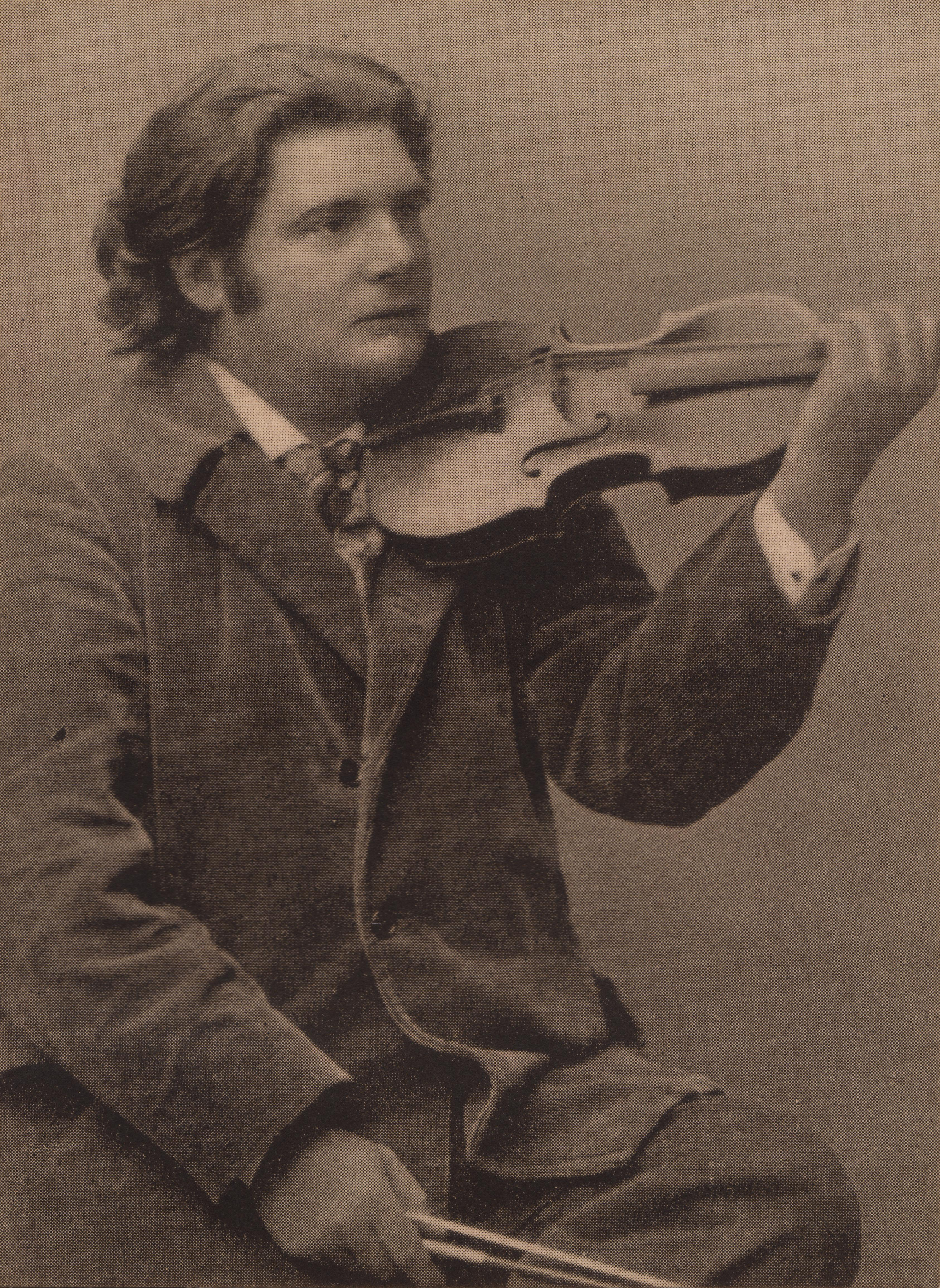 Scanned from Modern Musicians by J. Cuthbert Hadden (First published by T.N.Foulis in 1913) - September 1918 Foulis reprint. Book is in the Public Domain in the US and UK. Scanned as 1200 dpi bitmap (photo) then converted to jpeg.